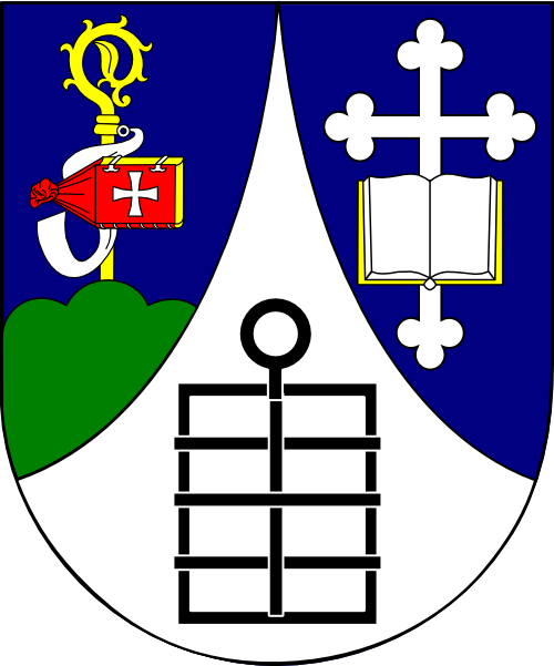 Coat of arms (shield only) of Leopold Rost, abbot of Schottenstift (Scottish Abbey), Vienna (1901 - 1913). Based on "Die Wappen der wiener Schottenäbte", p. 30.